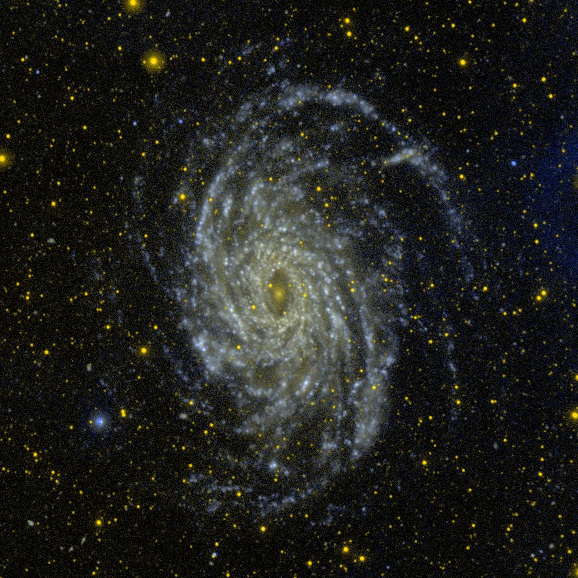 NGC 6744 galaxy by GALEX